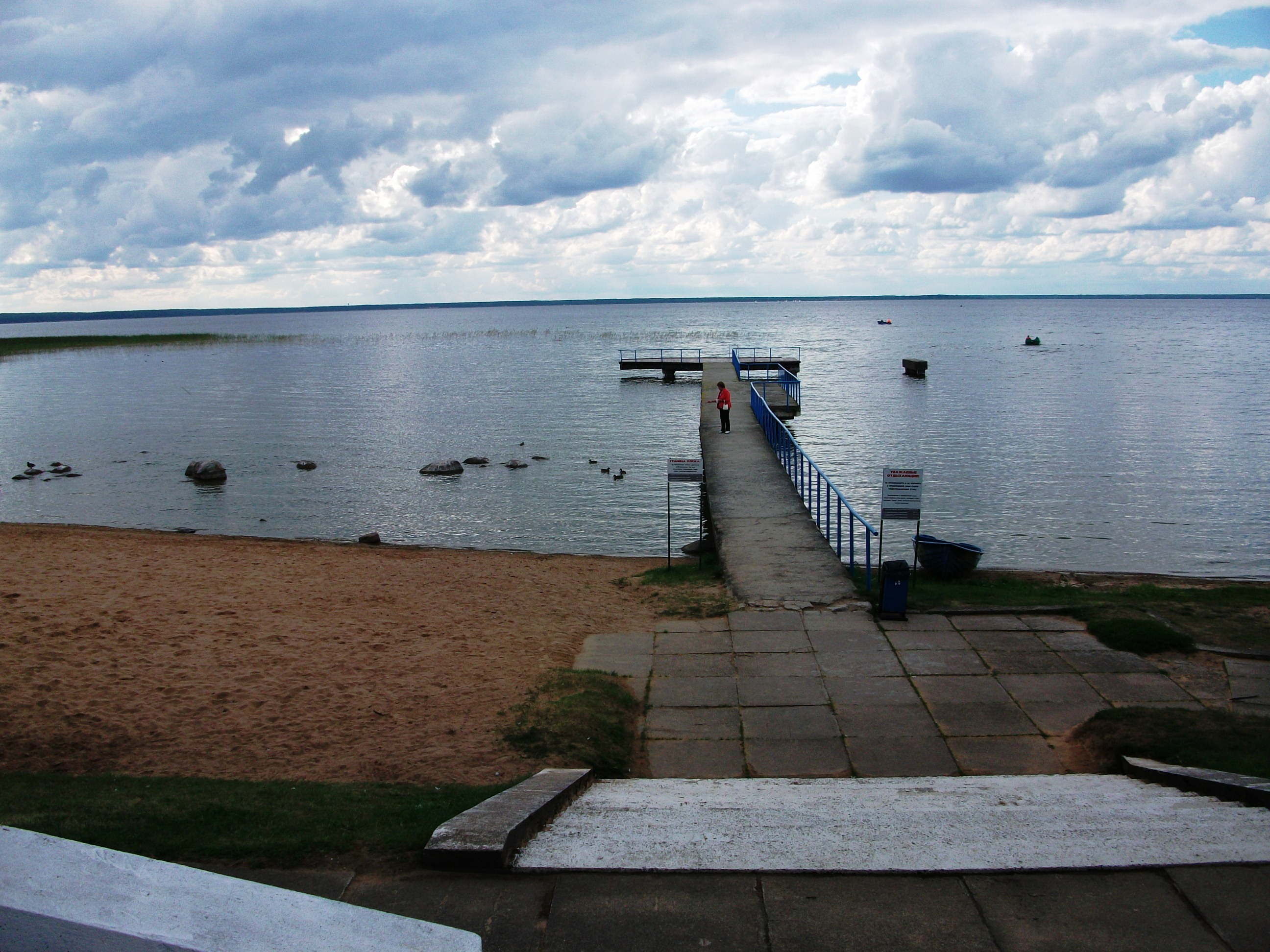 Narach Lake, Myadzyel district, Belarus